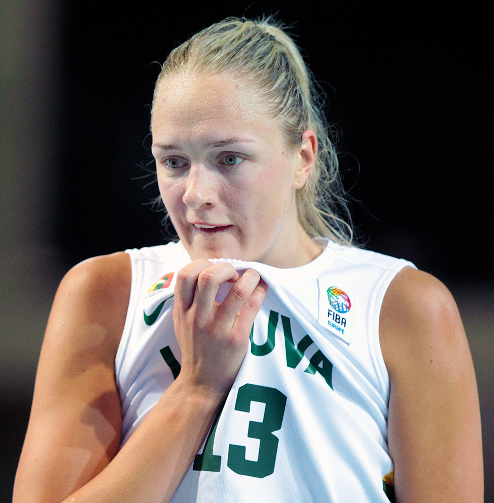 Basketball player Gintare Petronyte